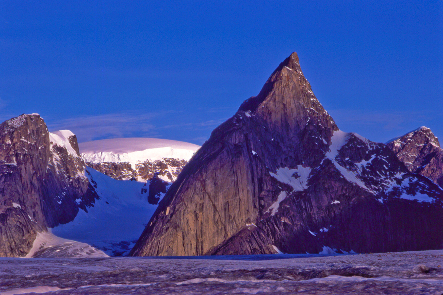 Mt. Loki, Baffin Is., from the Turner Glacier at the point entry of the Parade Glacier. We had looped around Freya Peak and Iviangernat Mountain via the Parade Glacier from (and to) Summit Lake, all glacier travel except by the Lake (both this shot and my Mt. Asgard shot were taken from the same location).